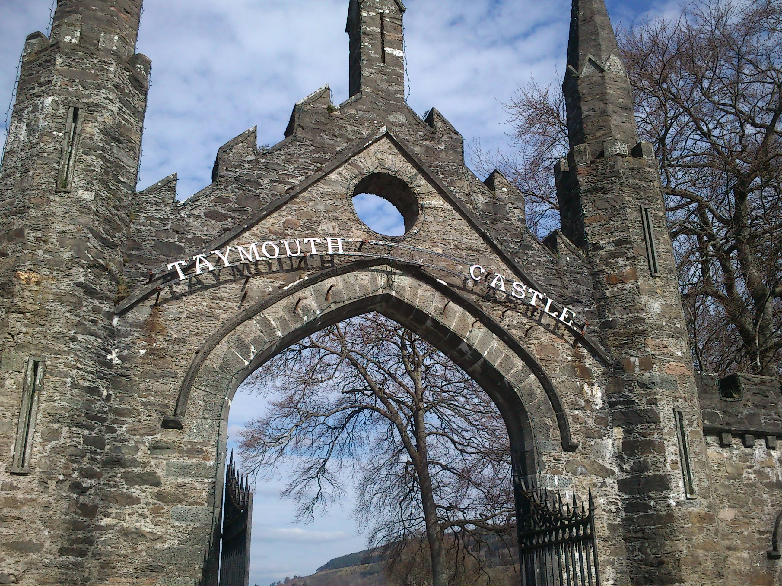 Taymouth Castle, Kenmore Gate Wikidata has entry Q17844017 with data related to this item.